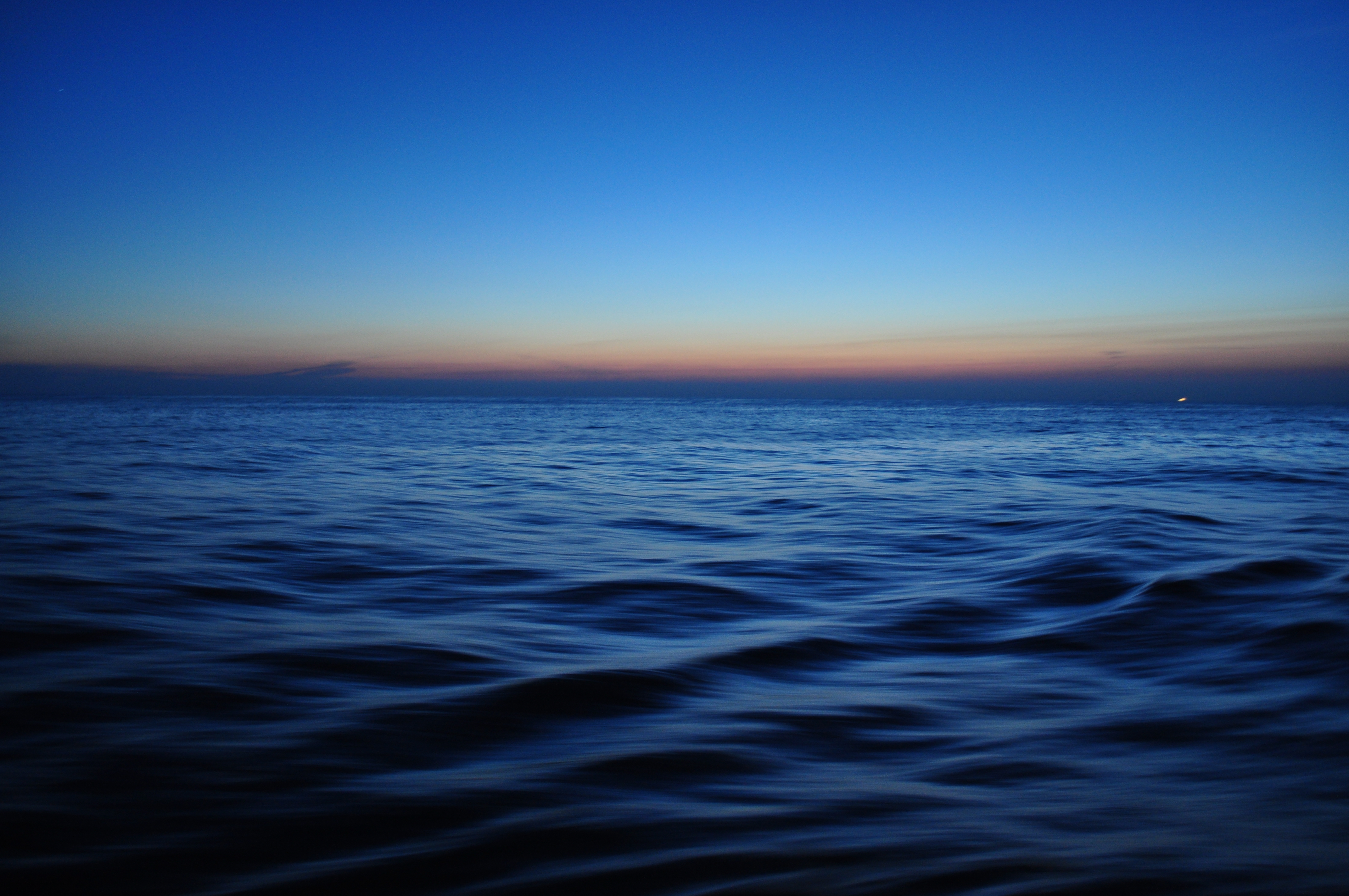 Night/dusk shot of the bay of biscay from Cunard's Queen Victoria Cruise Ship.